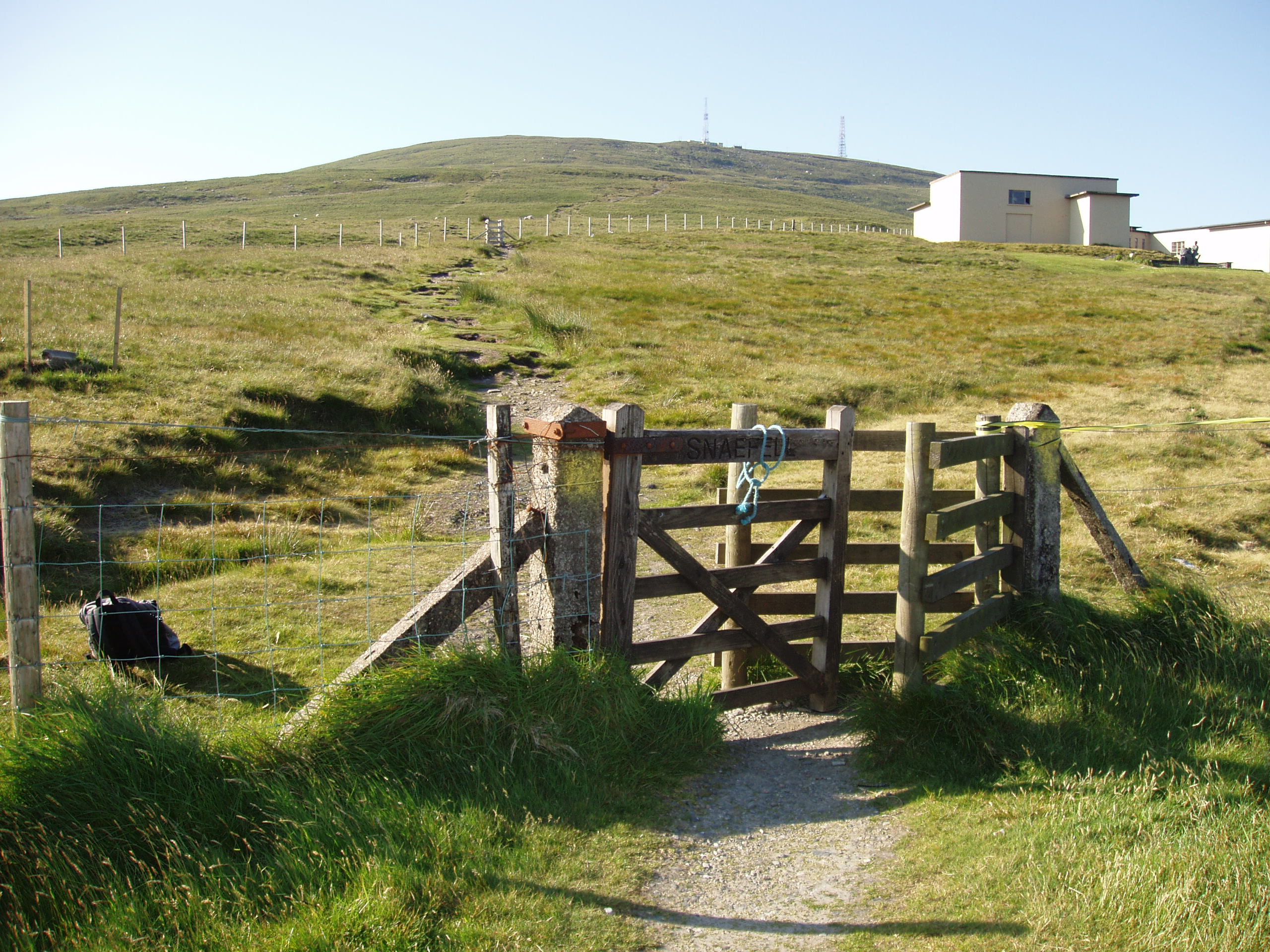 Footpath normally used by those hiking to the summit of Snaefell Mountain. This entry point, along Mountain Road (A18), is near the Bungalow Railway Station where the Snaefell Mountain Railway makes an intermediate stop before starting its final ascent to the summit. The twin pass-throughs seen here help contain the herds of sheep grazing along the hillside.